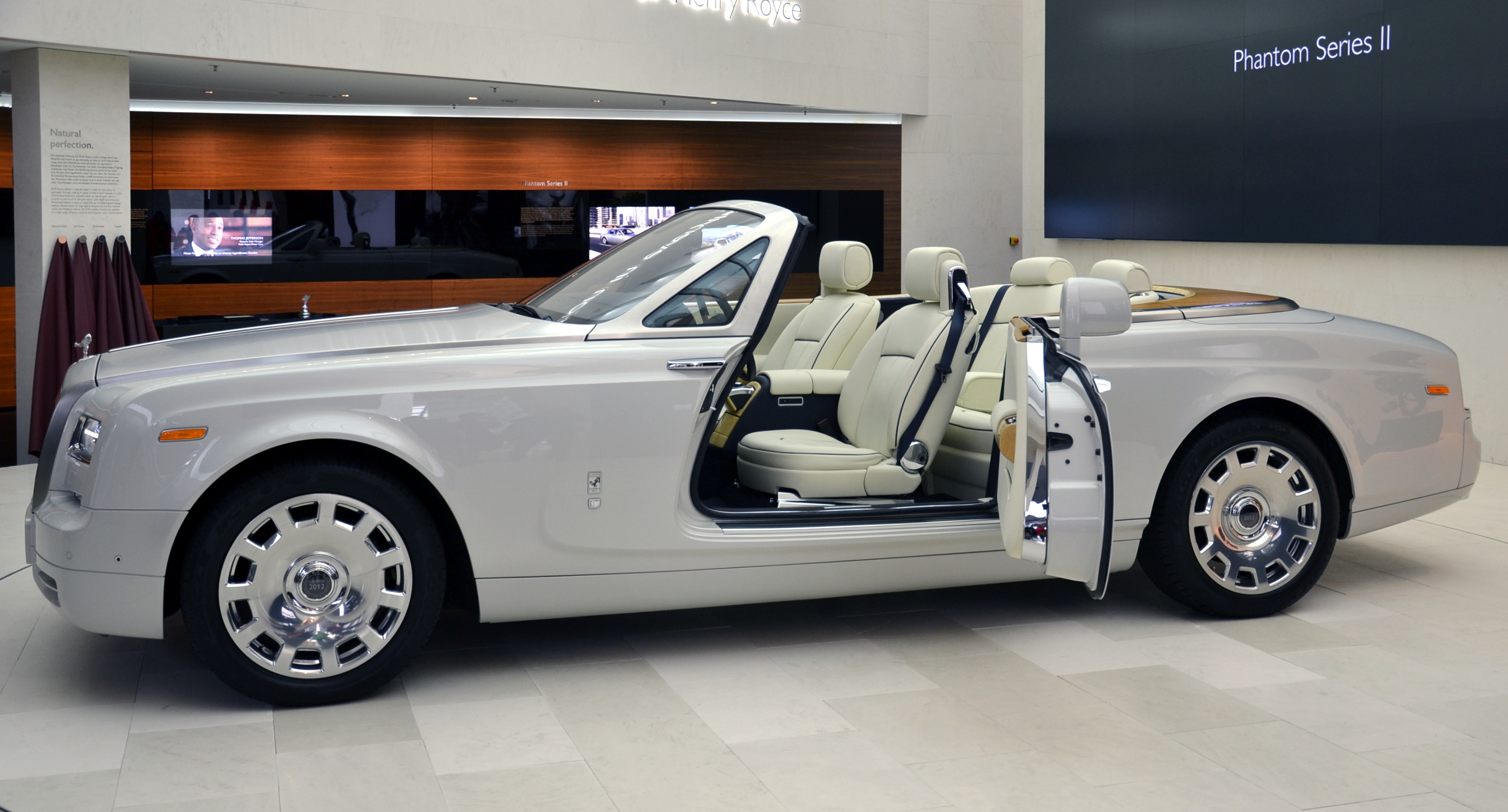 Rolls Royce Phantom Serie II